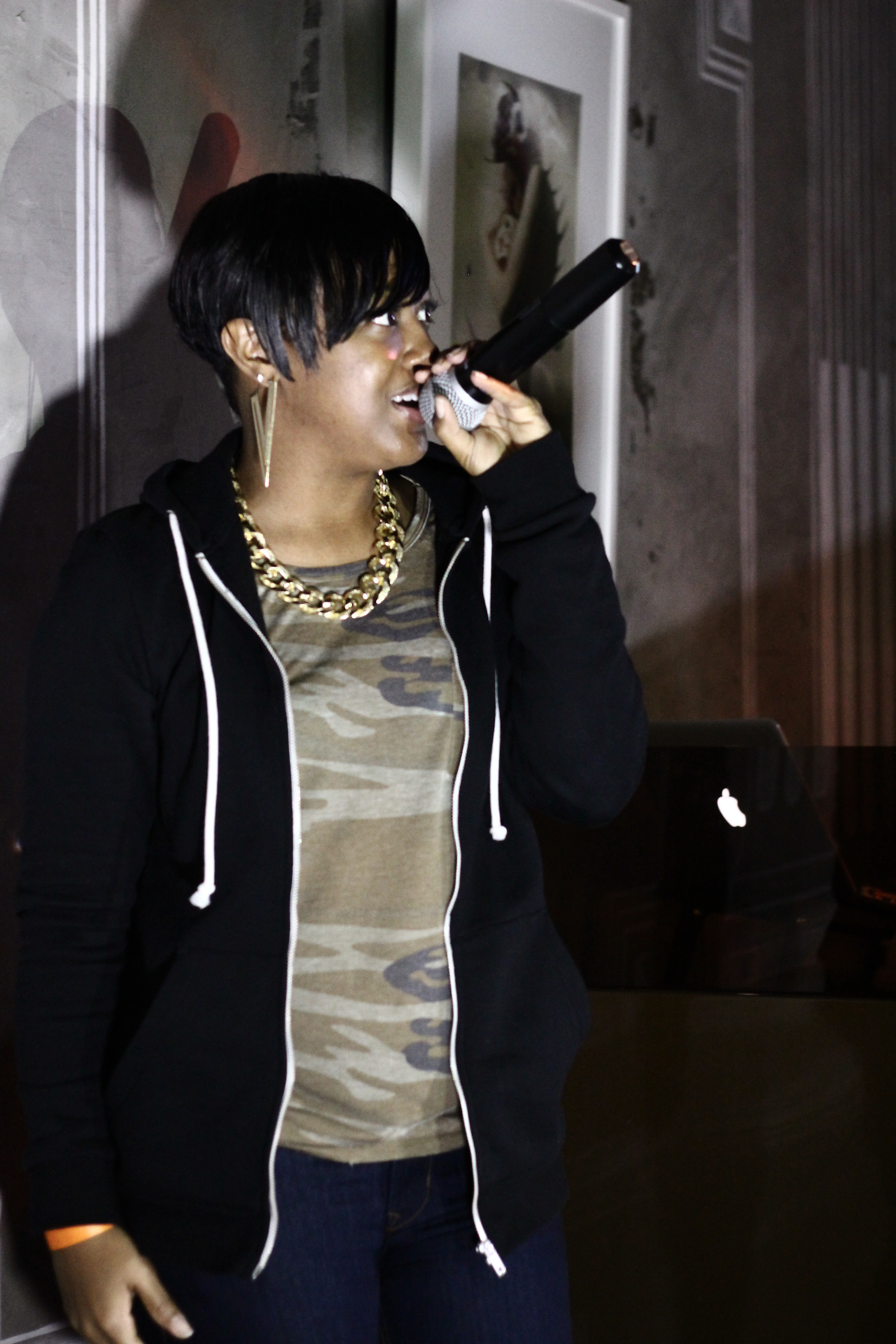 Rapsody & 9th Wonder - So Miles Party, Djoon, Paris may 2014